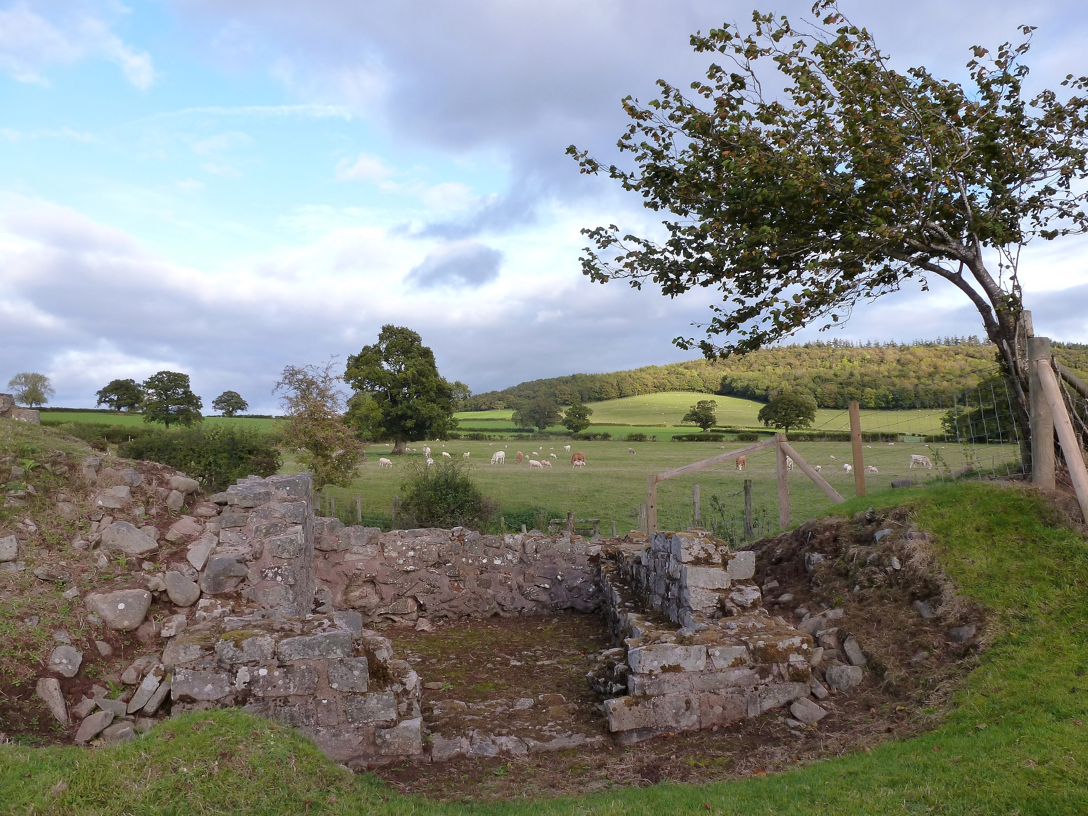 Y Gaer (ancient Roman fort) near Brecon, Powys, Wales: foundations of the north east corner turret